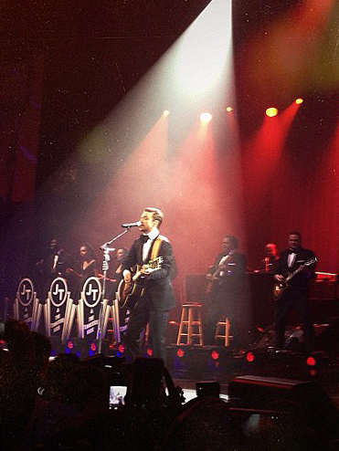 American musician Justin Timberlake presenting his new album The 20/20 Experience at DirecTV Super Night in New Orleans on February 2, 2013.